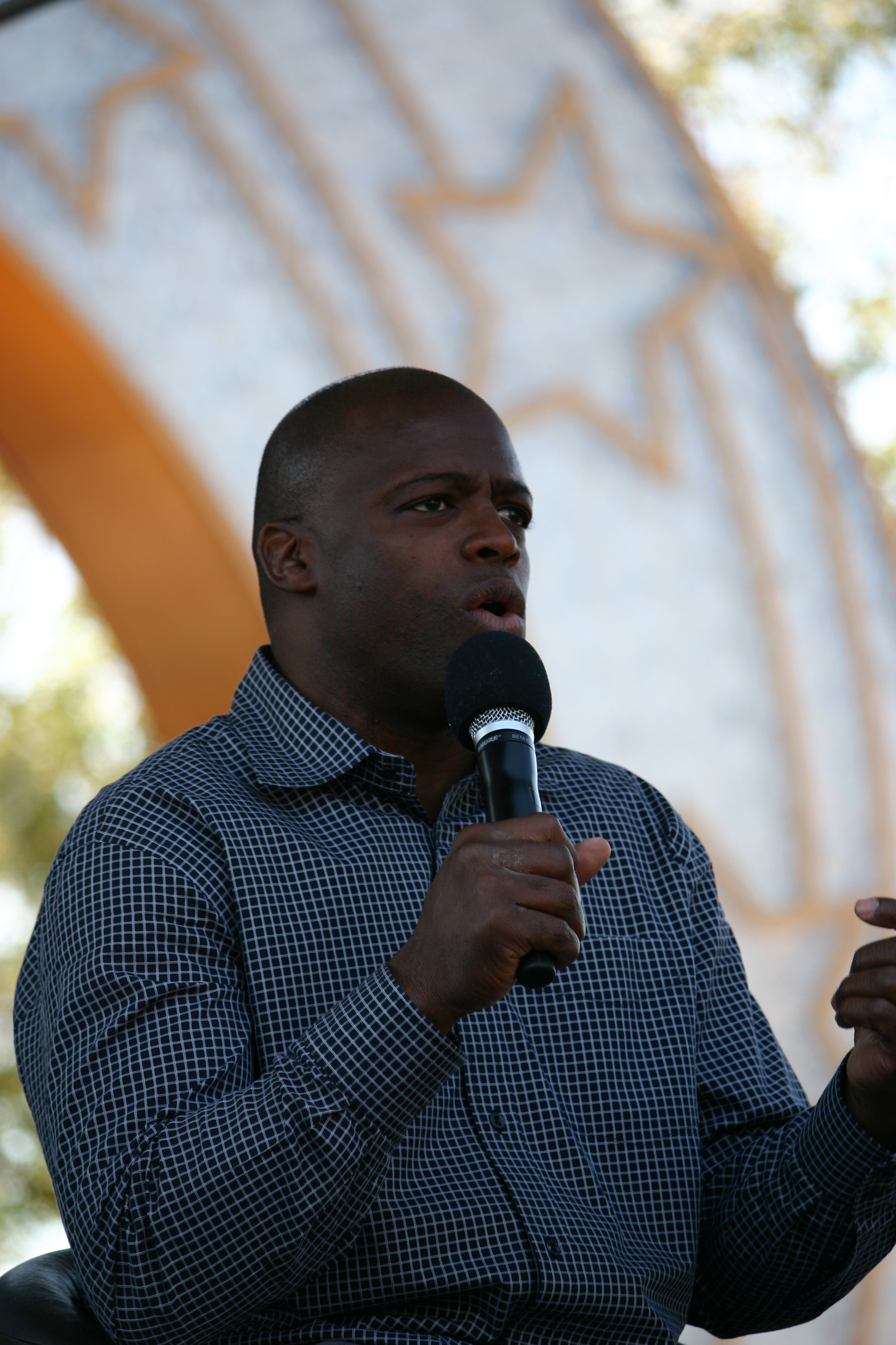 Darrell Green answering guest questions at ESPN The Weekend on February 26, 2010